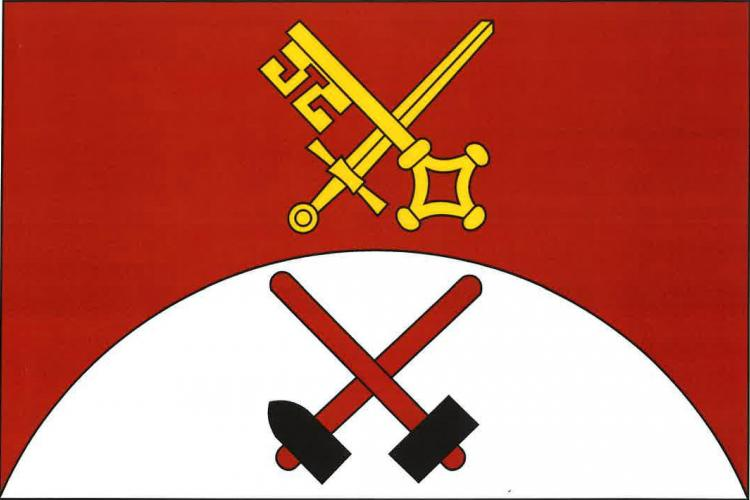 Flag of Czech municipality Bílý Kámen